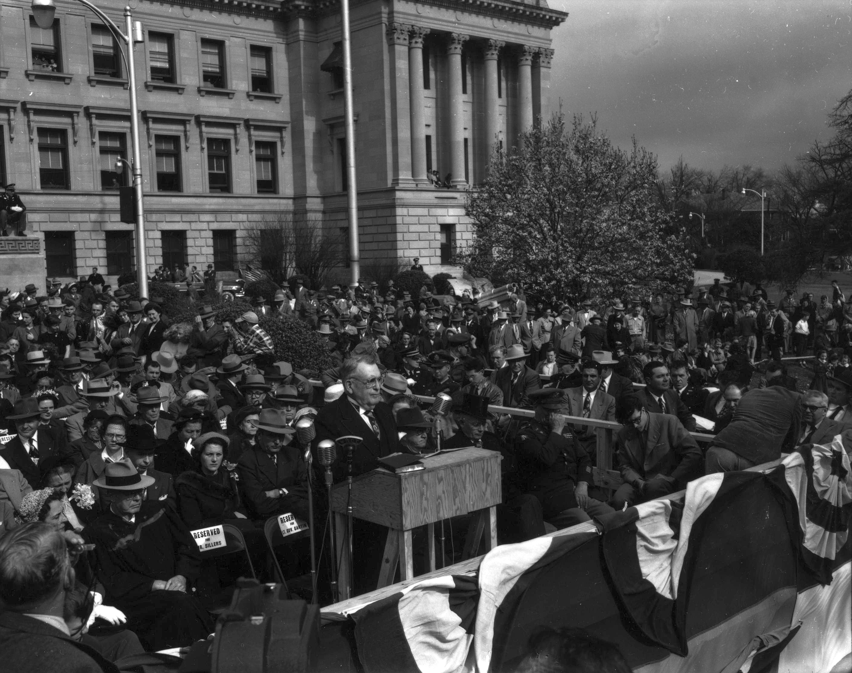 Inauguration of Mississippi Governors Hugh L. White.